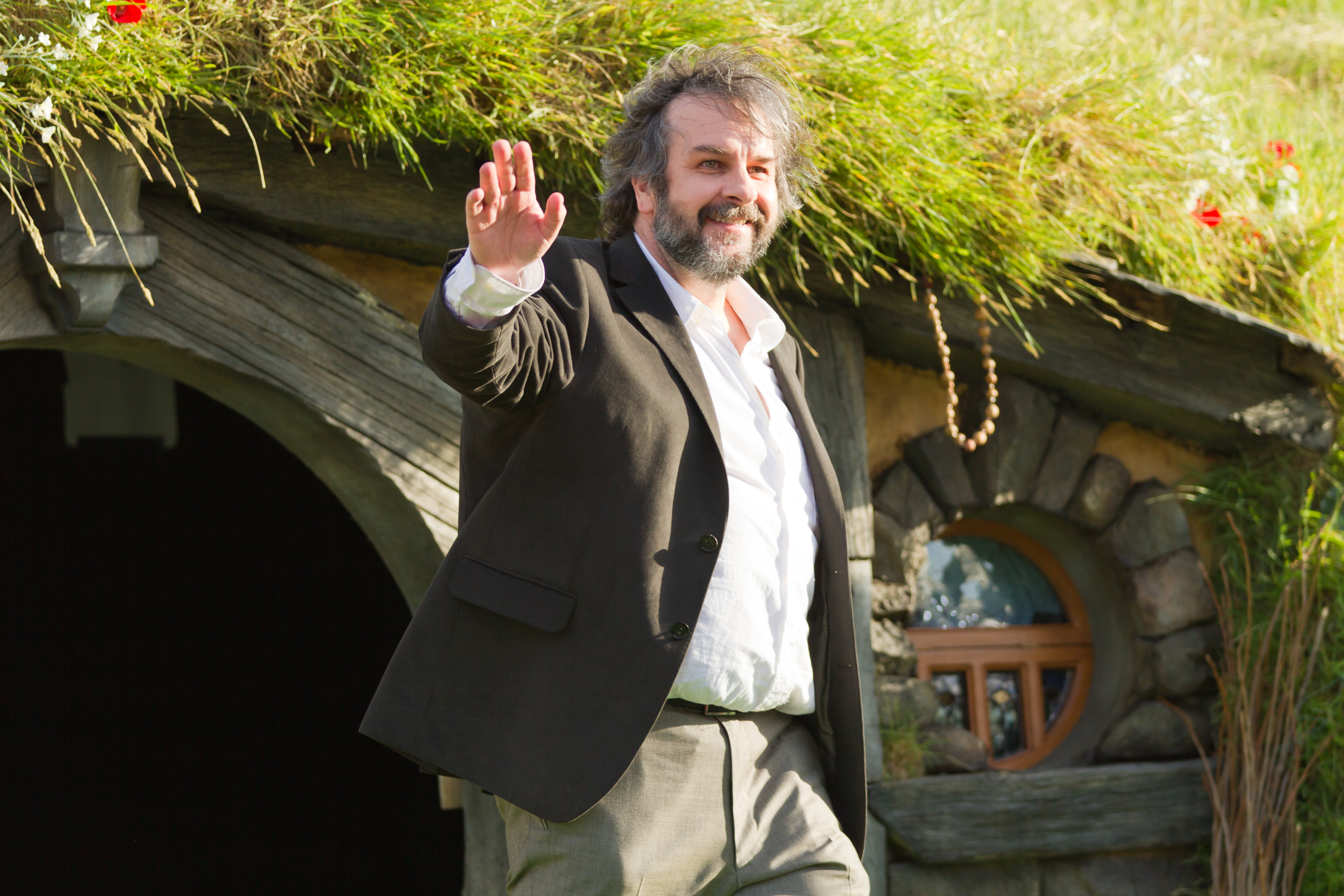 Sir Peter Jackson at the world premiere of The Hobbit - An Unexpected Journey, held in Wellington, New Zealand, on the 28th November 2012. More photos available at